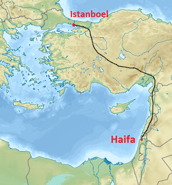 Aliyah overland in 1944